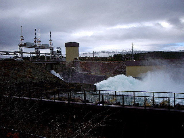 The Yukon's power grid is isolated. In fact there are two power grids in the territory, and they are not only isolated from other parts of the country, but from each other. Ninety percent of the Yukon's power is hydroelectric.